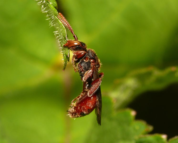 Nomada stigma, female. Location: Rhenen - Blauwe Kamer (The Netherlands)